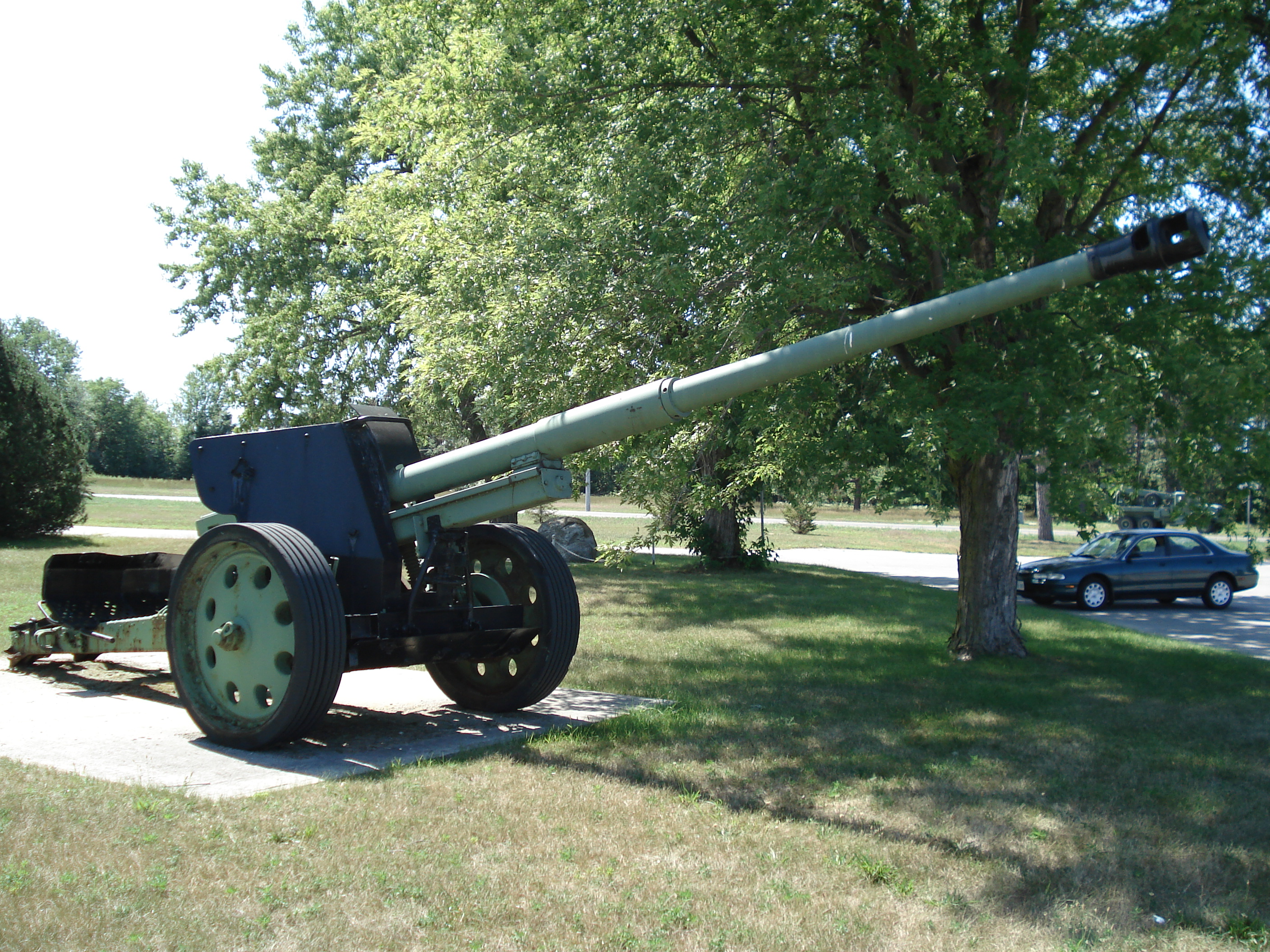 German PaK 43/41 88 mm anti-tank gun, displayed on the grounds of CFB Borden (Base Borden Military Museum). Photo taken on August 12, 2006. Source: Photo by me, User:Balcer.